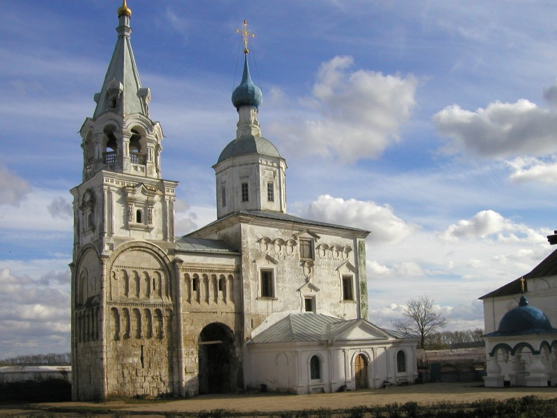 Church of the Nativity of Our Lady at Bogoljubovo